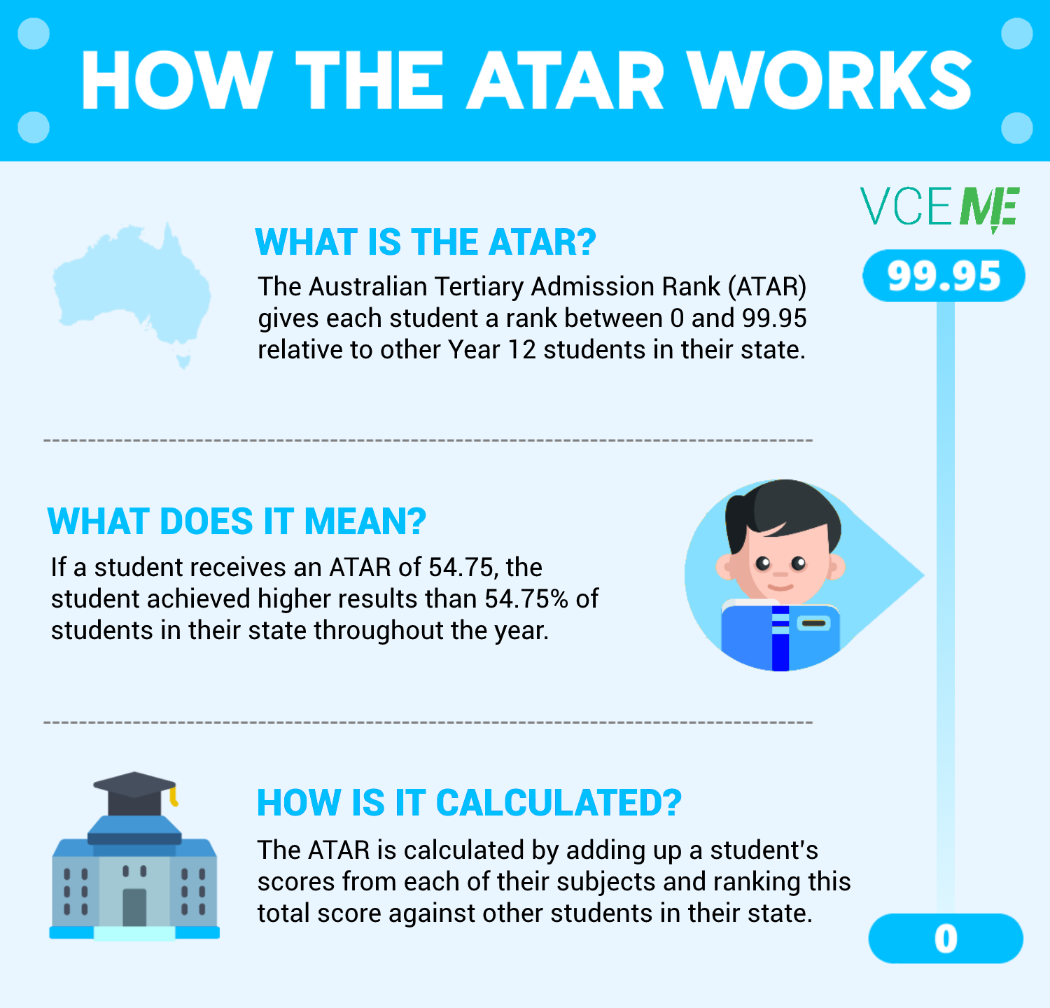 A brief description of the ATAR and how it is calculated, created by VCE Me.